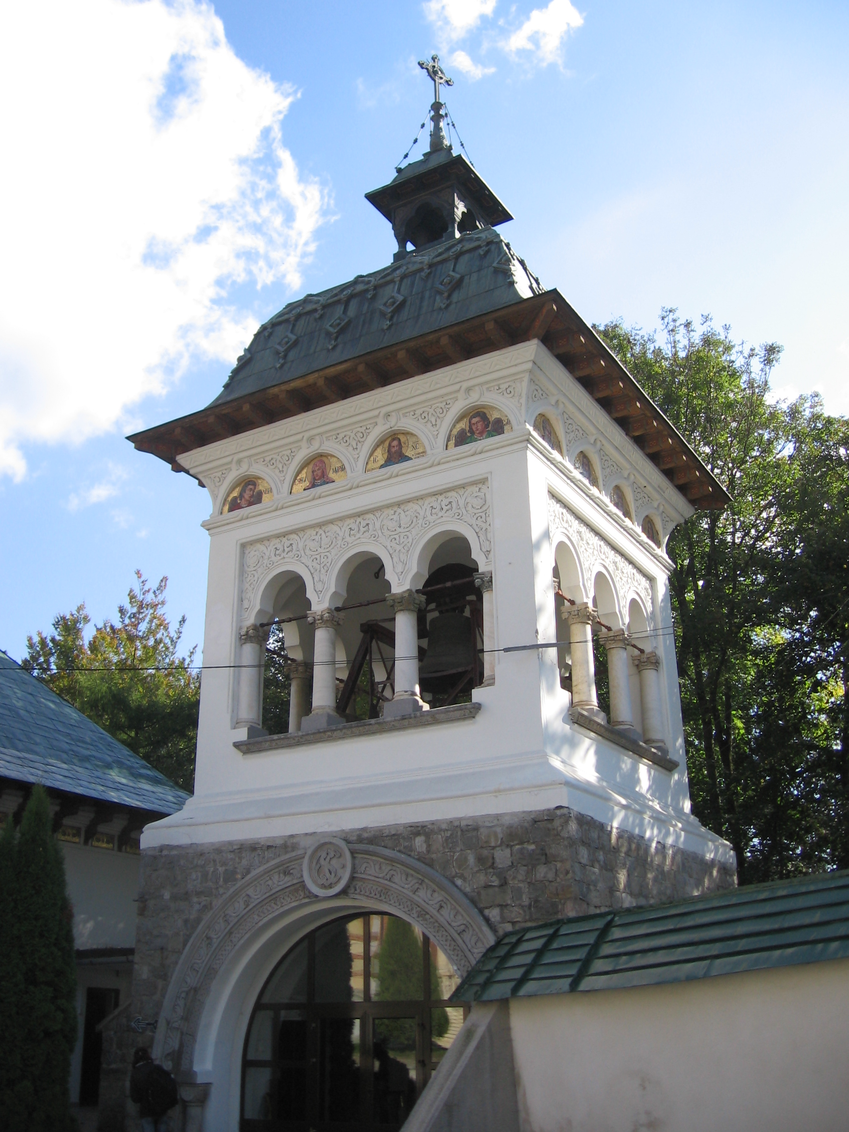 The Bell Tower of Sinaia Monastery viewed from the inner court.